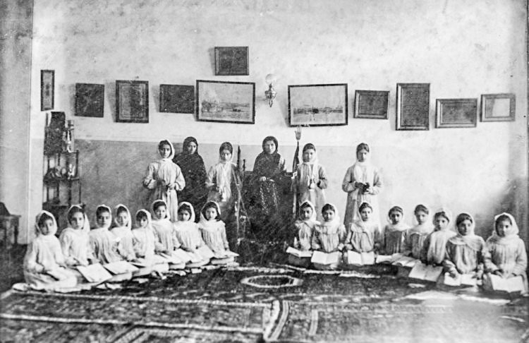 First Azerbaijani female dramaturgist Sakina Akhundzade with pupils of Baku muslim girls school of Taghiyev. 1903